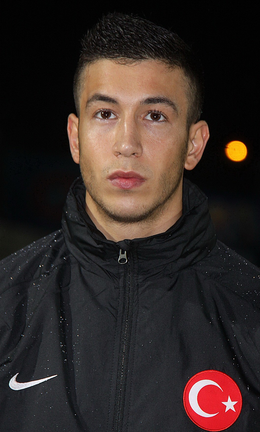 Friendly-match Austria U-21 vs. Turkey U-21 (2:0) on 2013-11-14 in Wiener Neudorf. – The photo shows Ahmet Dereli (Hatayspor, Turkey).